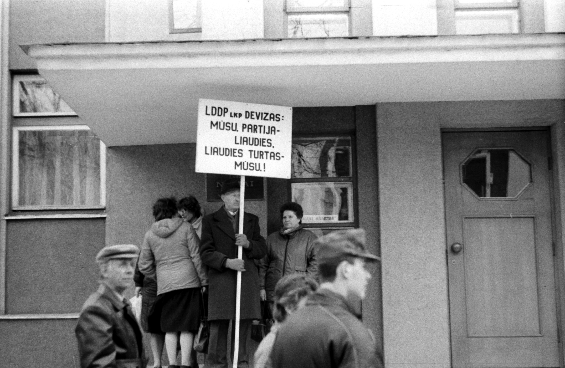 Picket against LDDP (communists) in Šiauliai, Lithuania